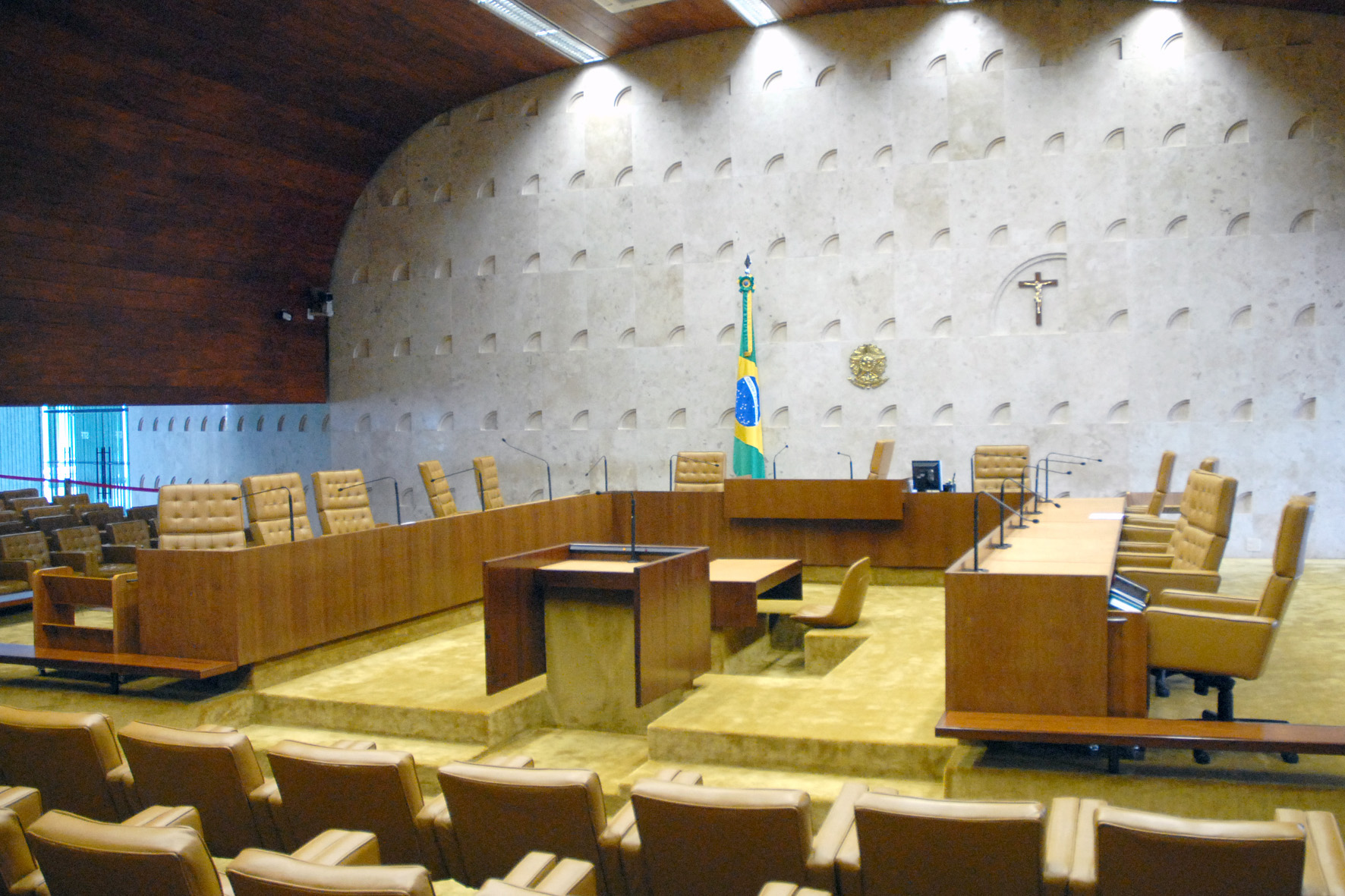 Plenary STF